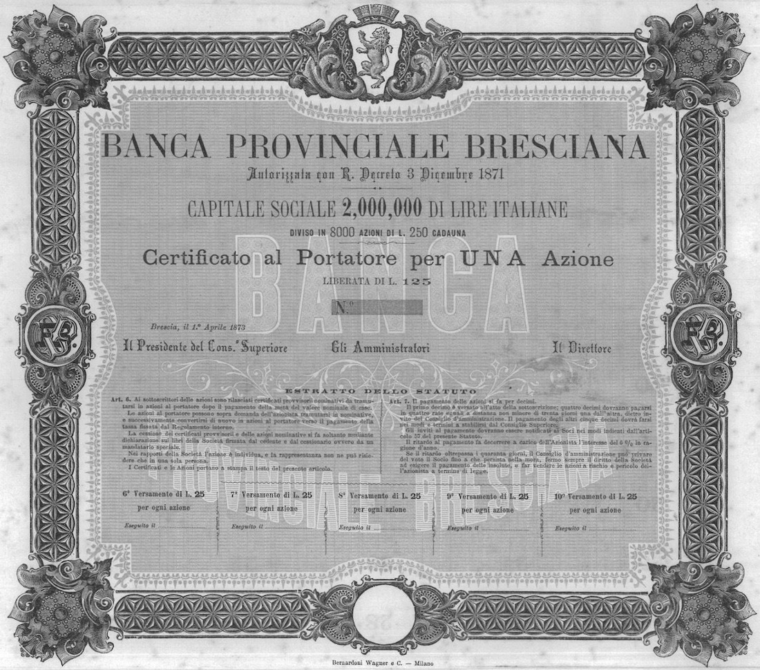 Share of «Banca Provinciale Bresciana», former private bank of Brescia operating from 1872 to 1877.